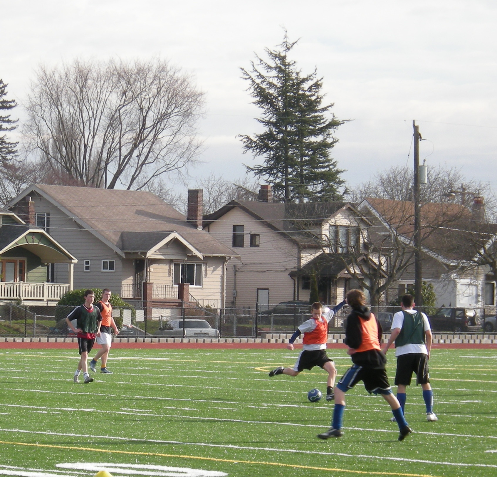 Soccer practice, Garfield High School, Seattle, Washington.